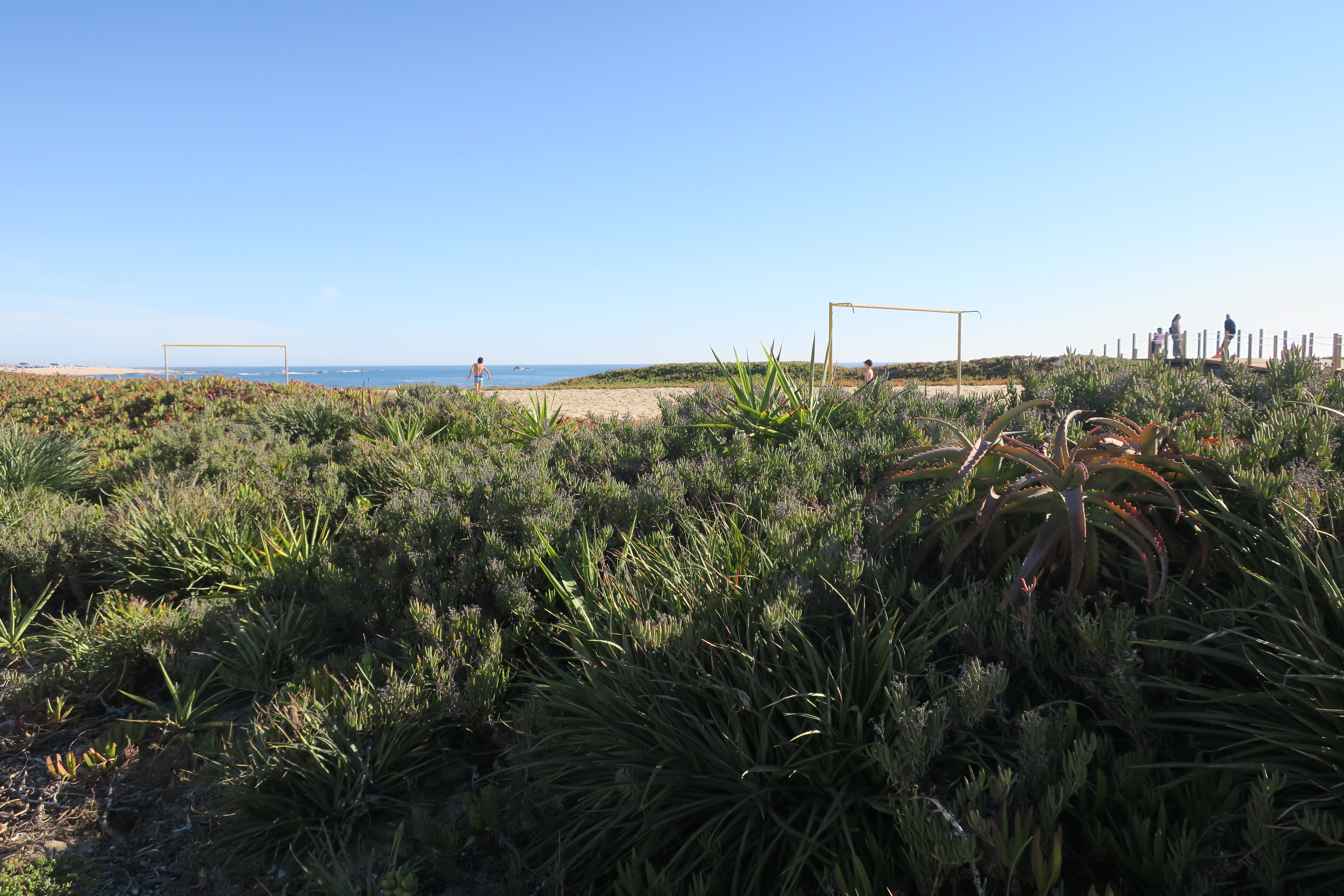 Quião Beach, Povoa de Varzim